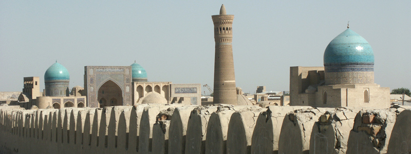 Bukhara (Uzbekistan) : Panorama